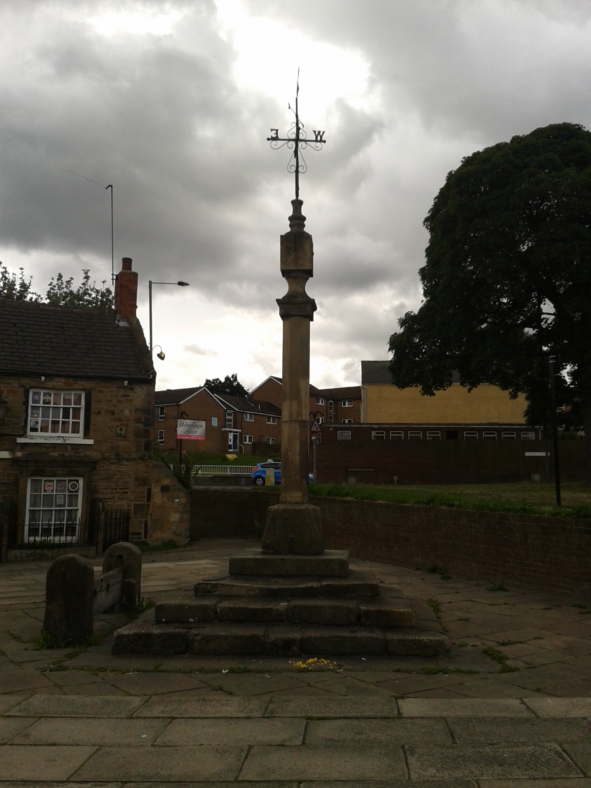 Village cross in the Market Place of Woodhouse, Sheffield, South Yorkshire, seen from the north